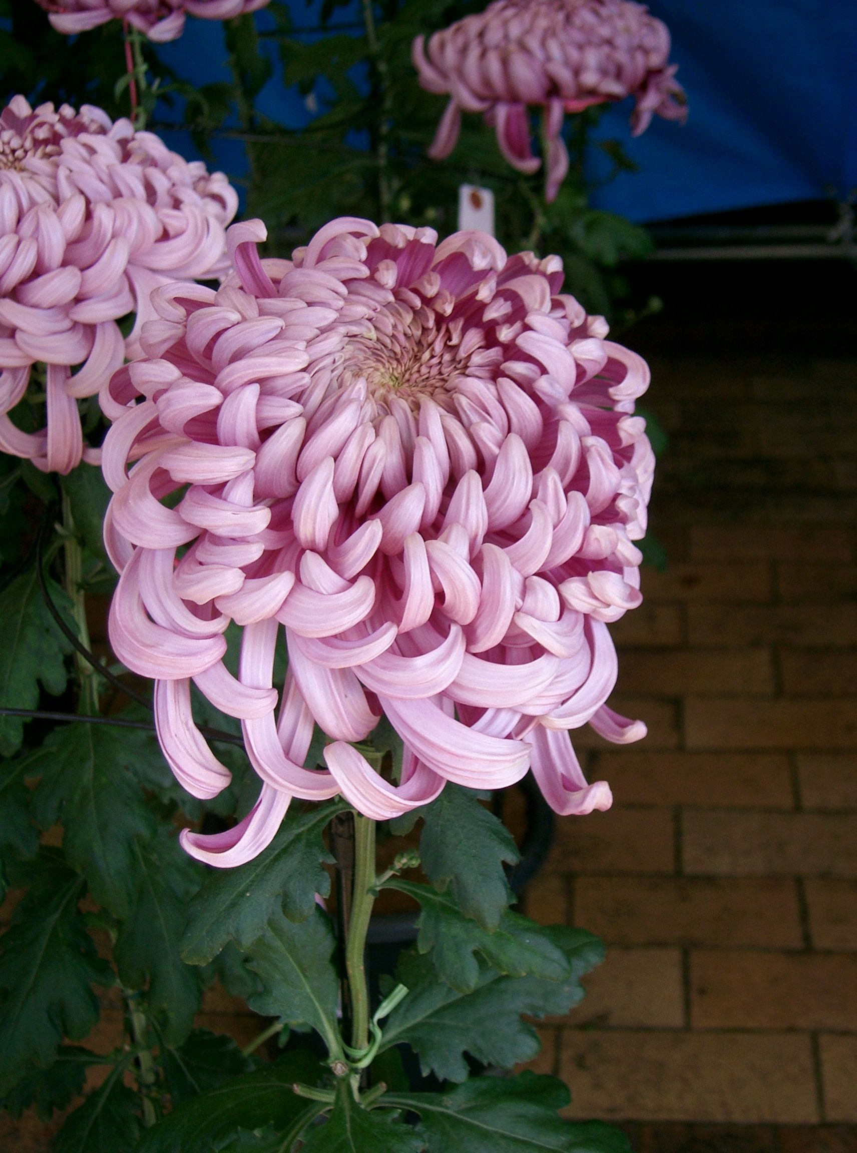 Chrysanthemum morifolium cv.